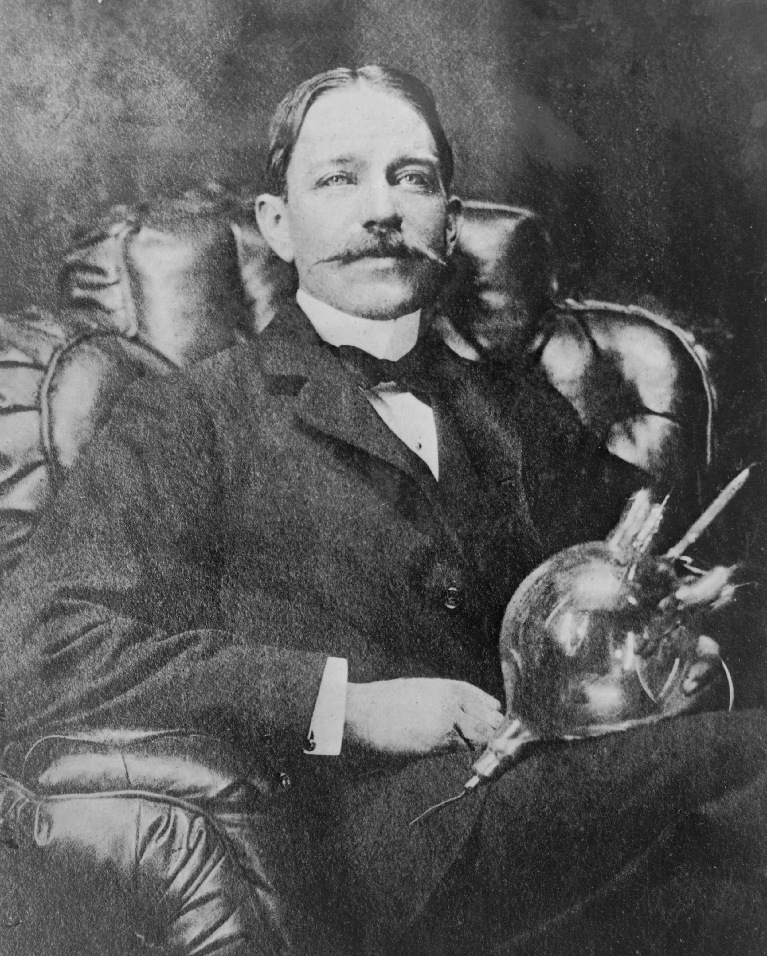 American electrical engineer Peter Cooper Hewitt (1861-1921), the inventor of the mercury vapor lamp and the mercury vapor rectifier. He is holding one of his mercury vapor rectifier tubes.